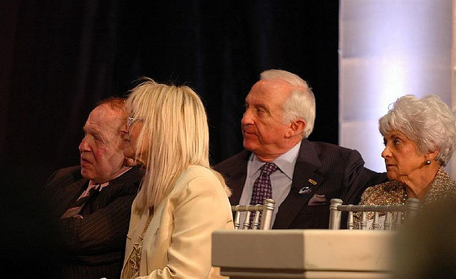 The Adelsons and Semblers listen attentively to Fred's speech. Left to right: Sheldon and Miriam Adelson, Mel and Betty Sembler